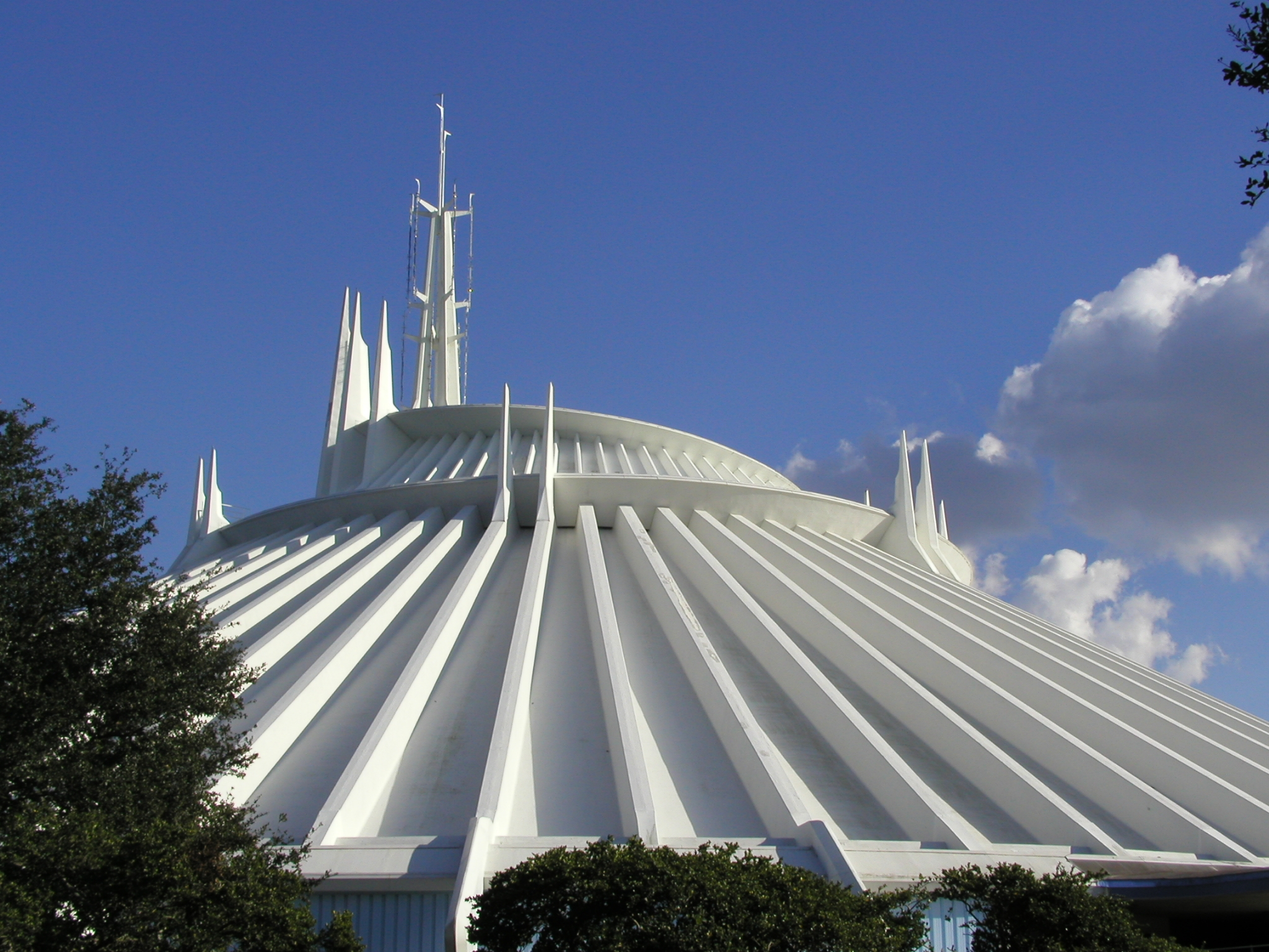 Space Mountain at the Magic Kingdom in Walt Disney World.